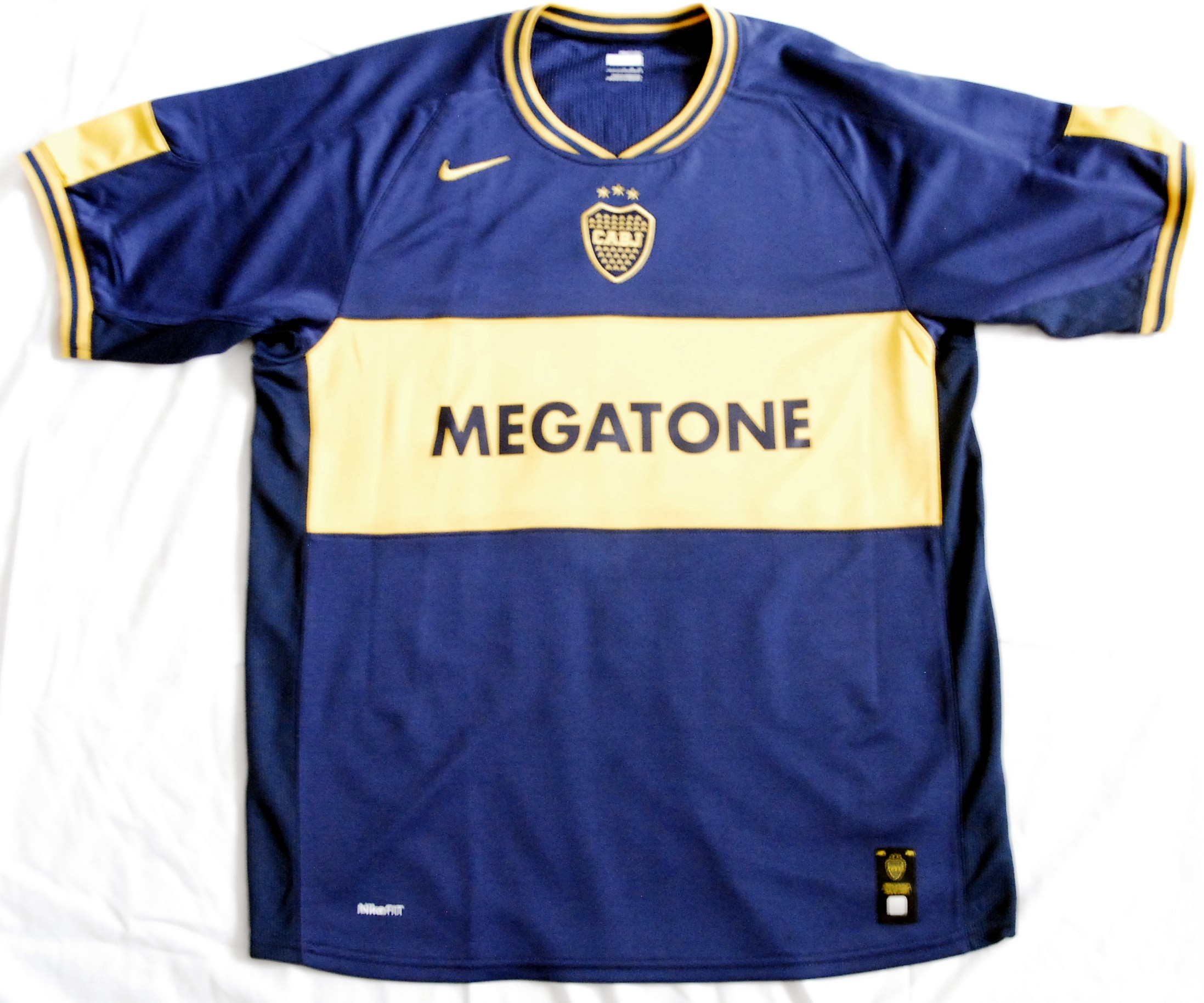 Boca Juniors 2006-2007 Home Jersey